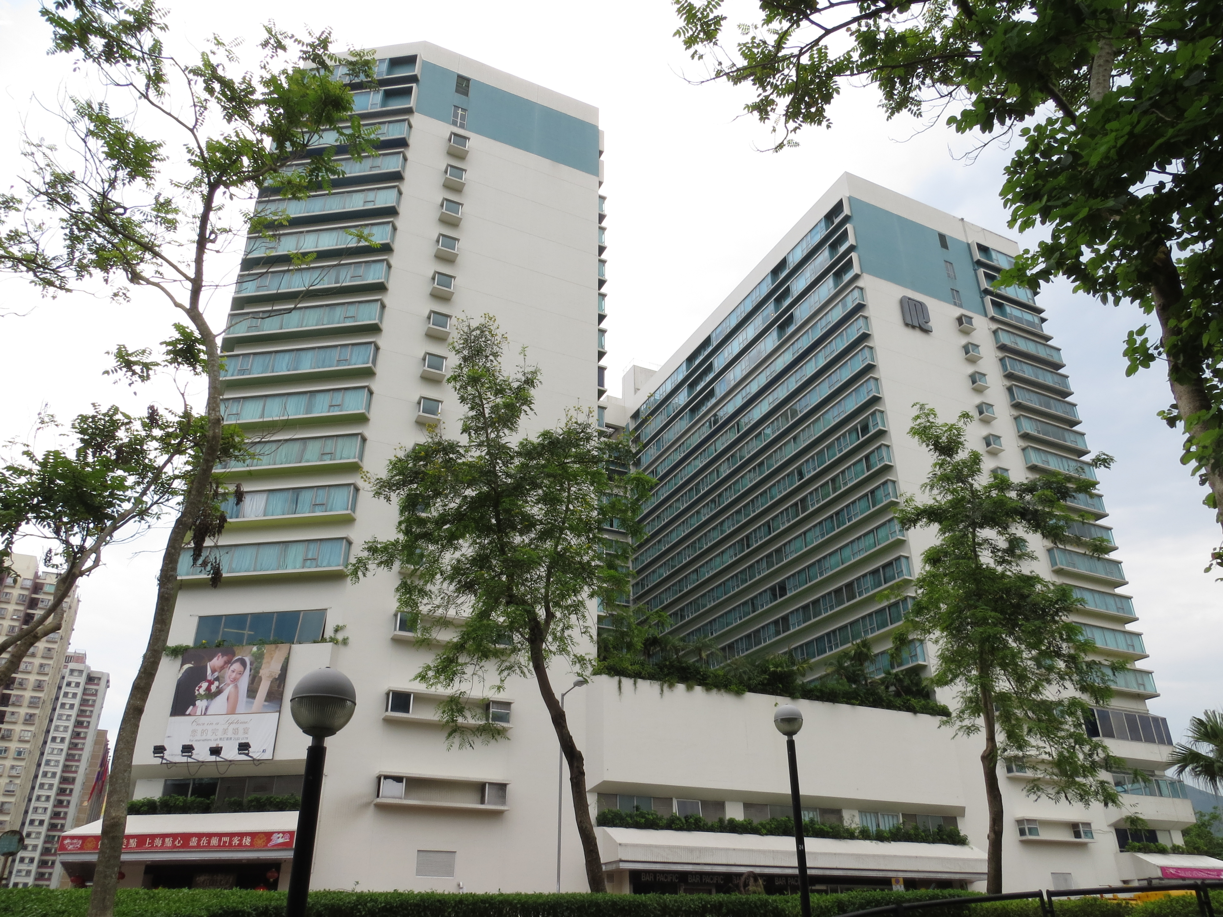 Regal Riverside Hotel, Sha Tin, New Territories, Hong Kong.